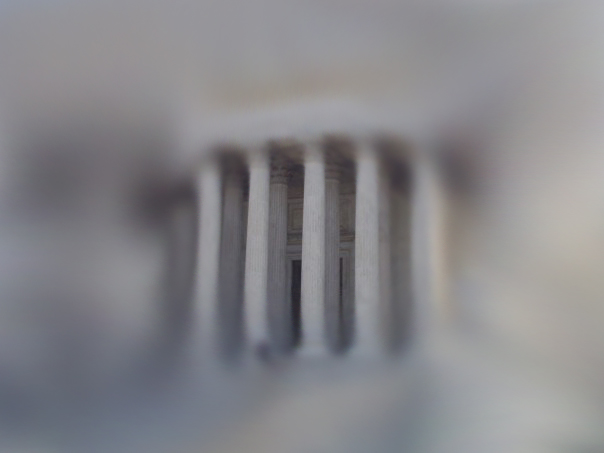 Photograph of the United States Supreme Court Building, modified to illustrate the effect of visual field loss, tunnel vision, in patients with Retinitis Pigmentosa.